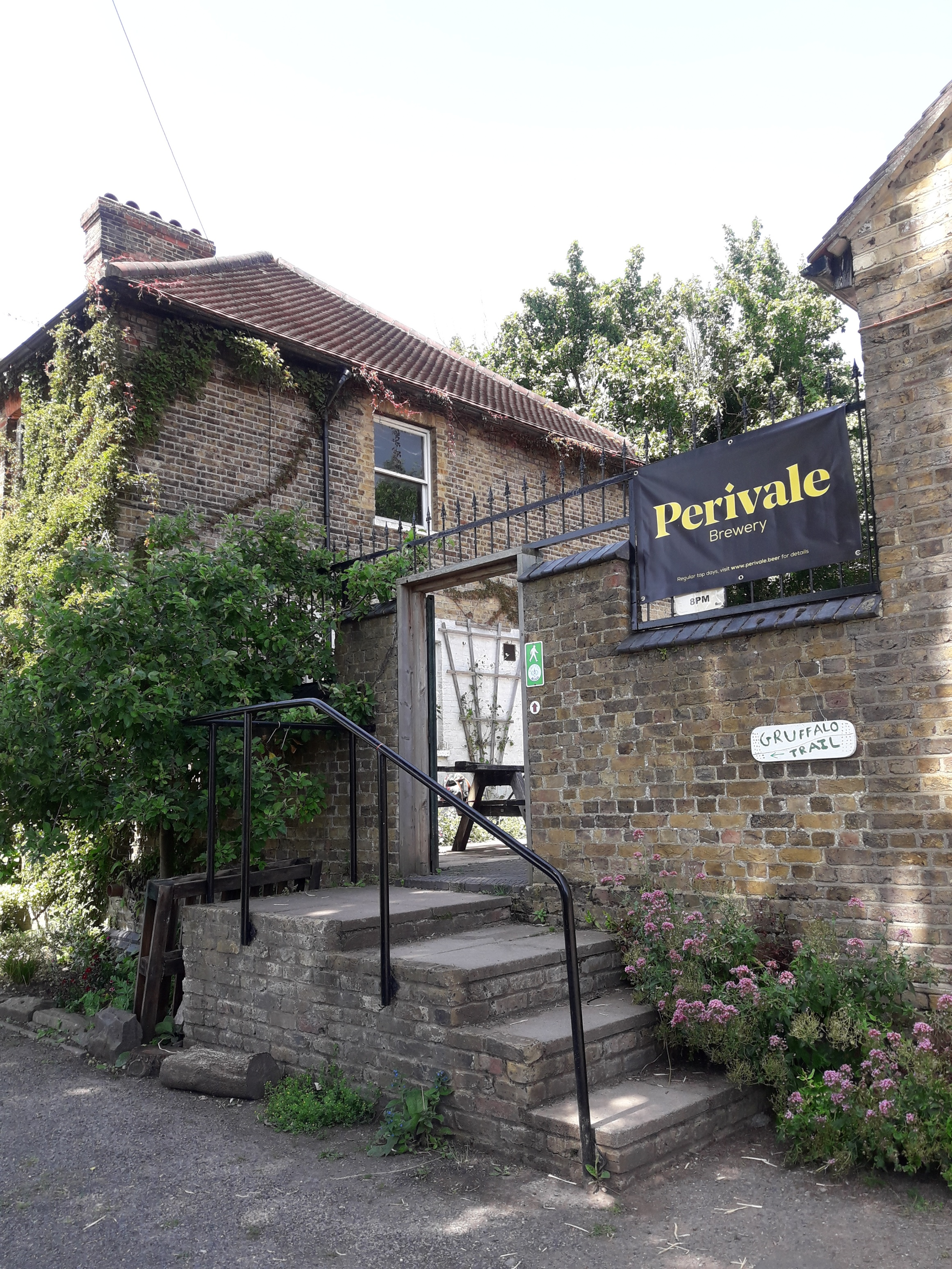 Brewery at Perivale